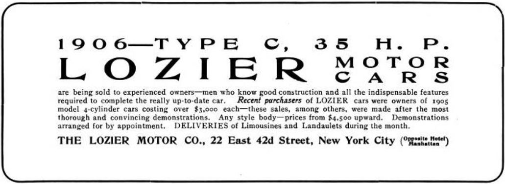 Lozier Motor Co. - New York City - 1905